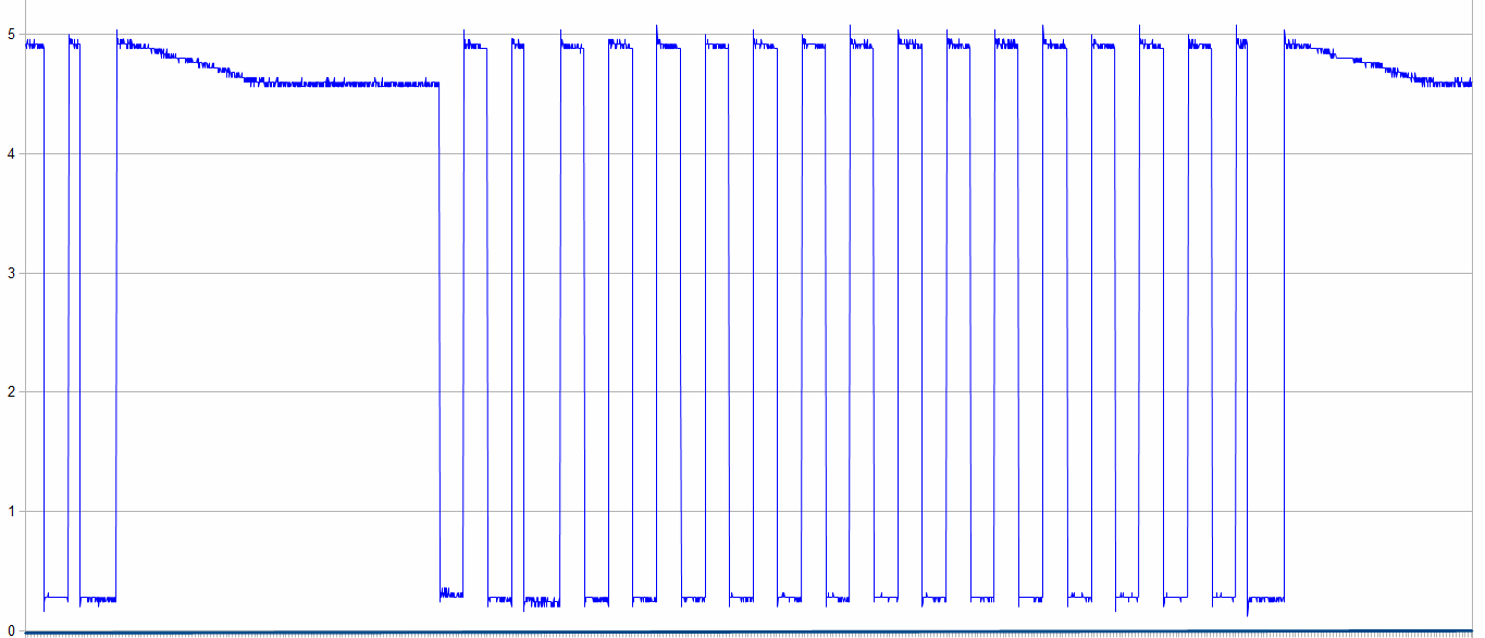 Oscilloscope capture of an IHC input module protocol. Here input 2 is on.